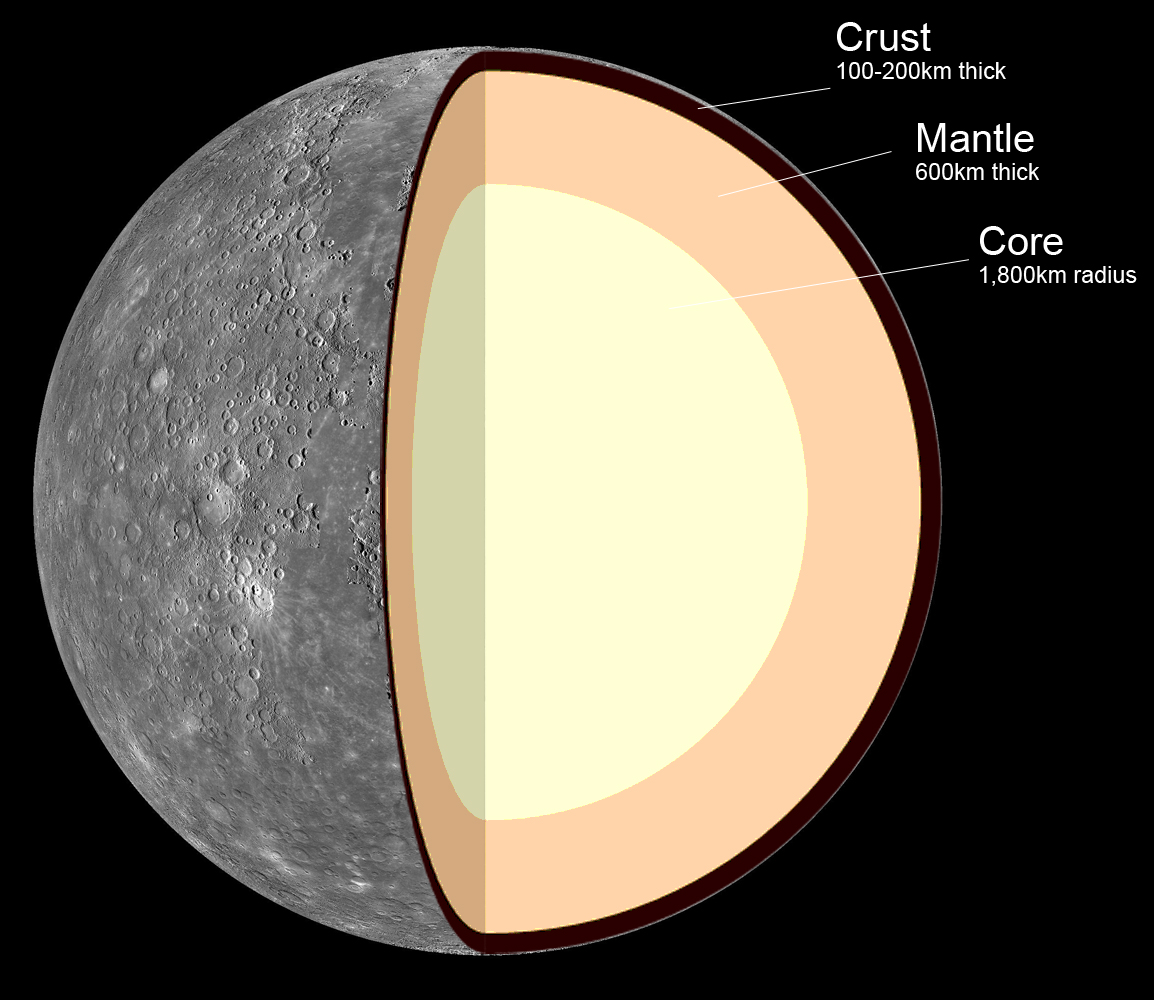 Diagram of the interior structure of the planet Mercury Crust - 100-200km thick Mantle - 600km thick Core - 1,800km radius